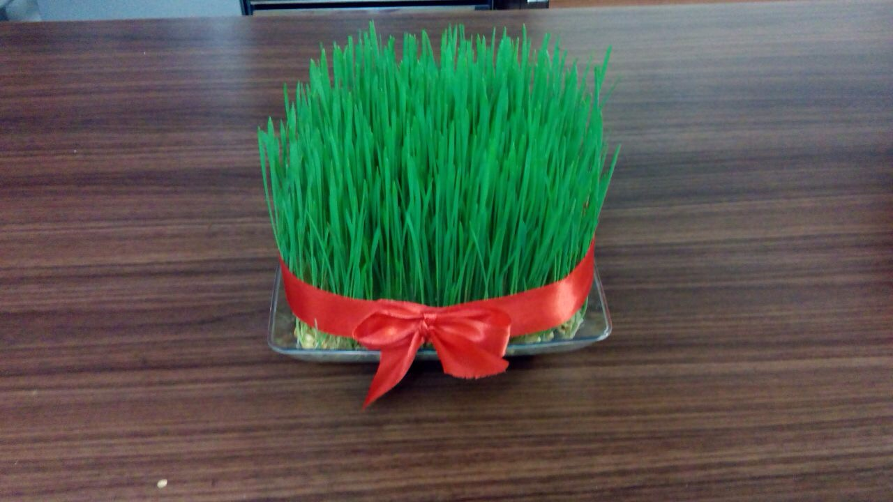 Example of Sabzeh displayed during Nowruz.